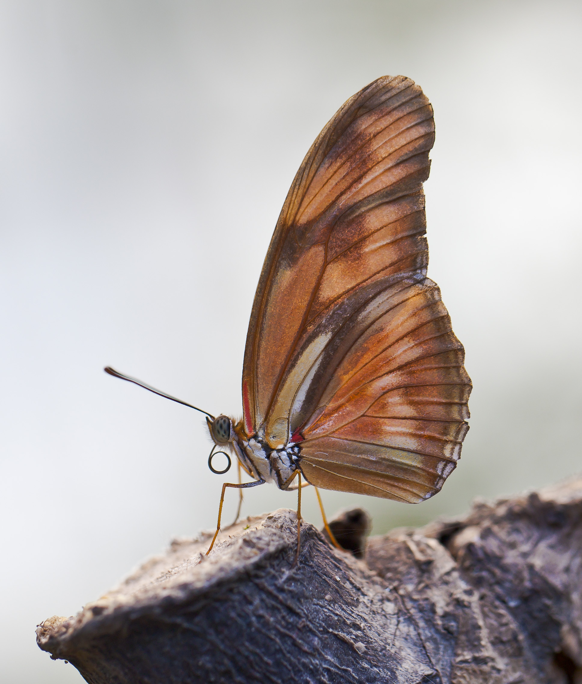 Julia Butterfly (Dryas iulia), Butterfly zoo of Icod de los Vinos, Tenerife, Spain